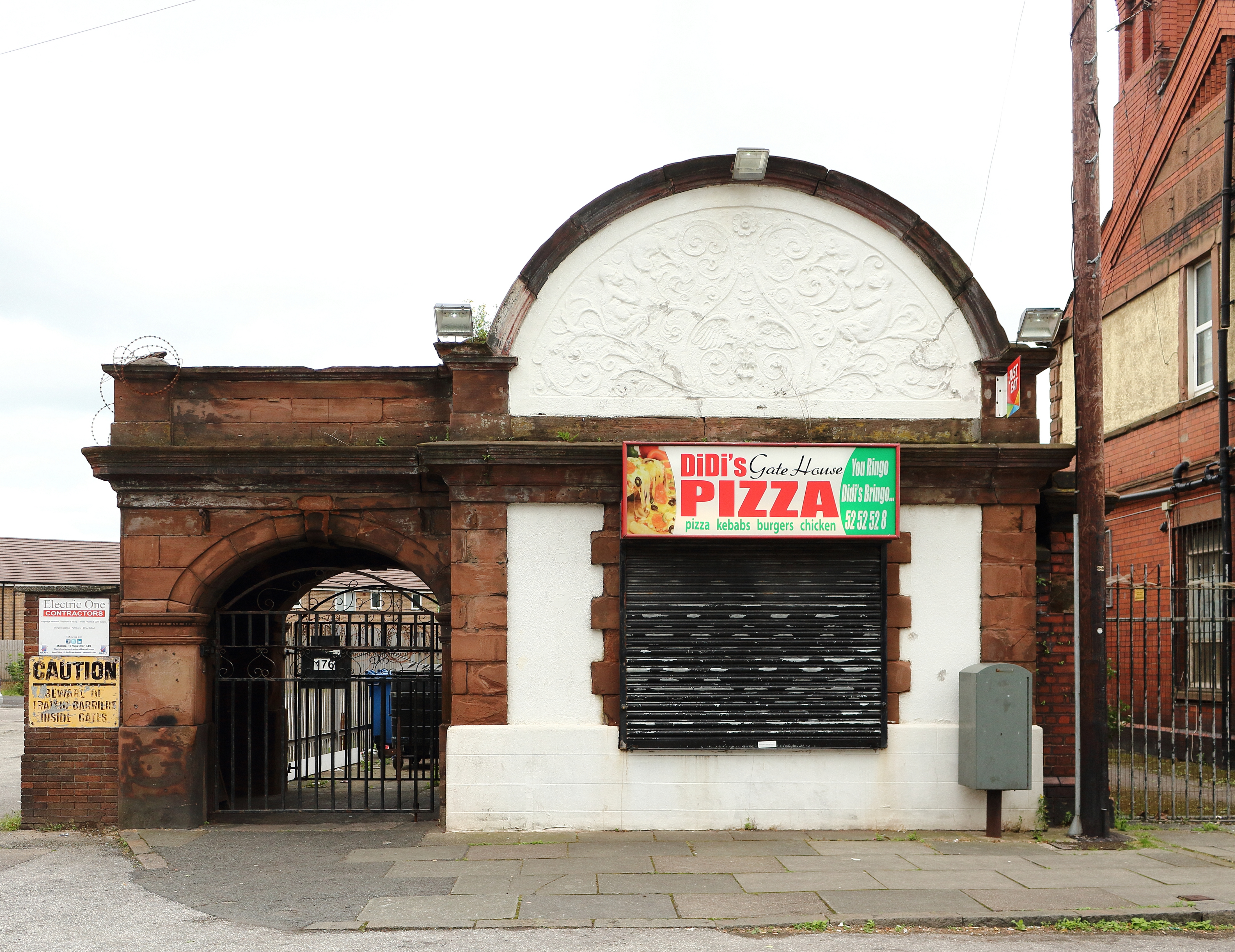 Liverpool Inner City Zoological Park and Gardens opened in 1884 and survived only until the early 1900s. The land is now occupied by a retail park, but this ticket booth survives and as can be seen is now a pizza takeway.